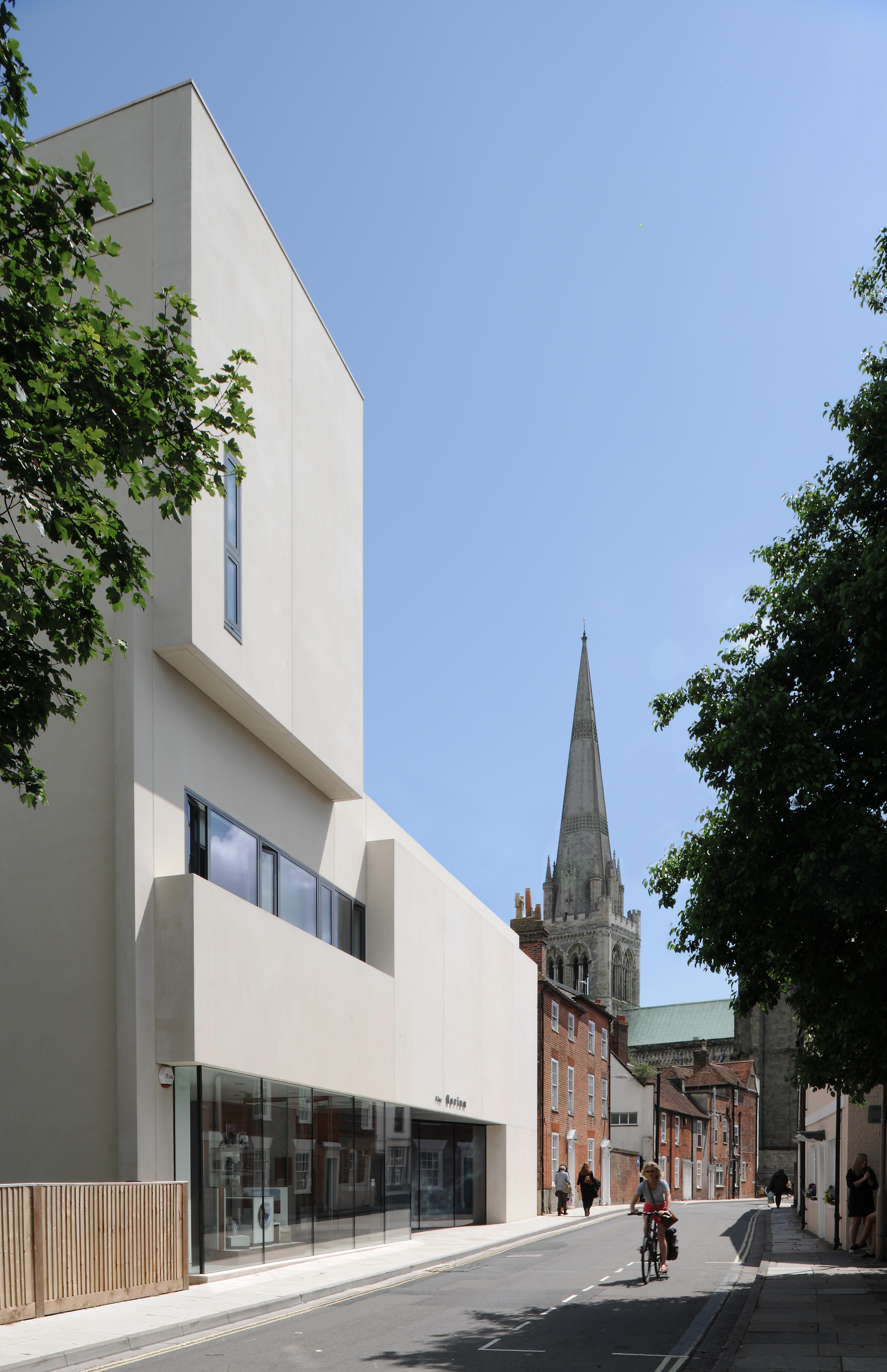 The Novium Museum, Chichester, by Keith Williams Architects